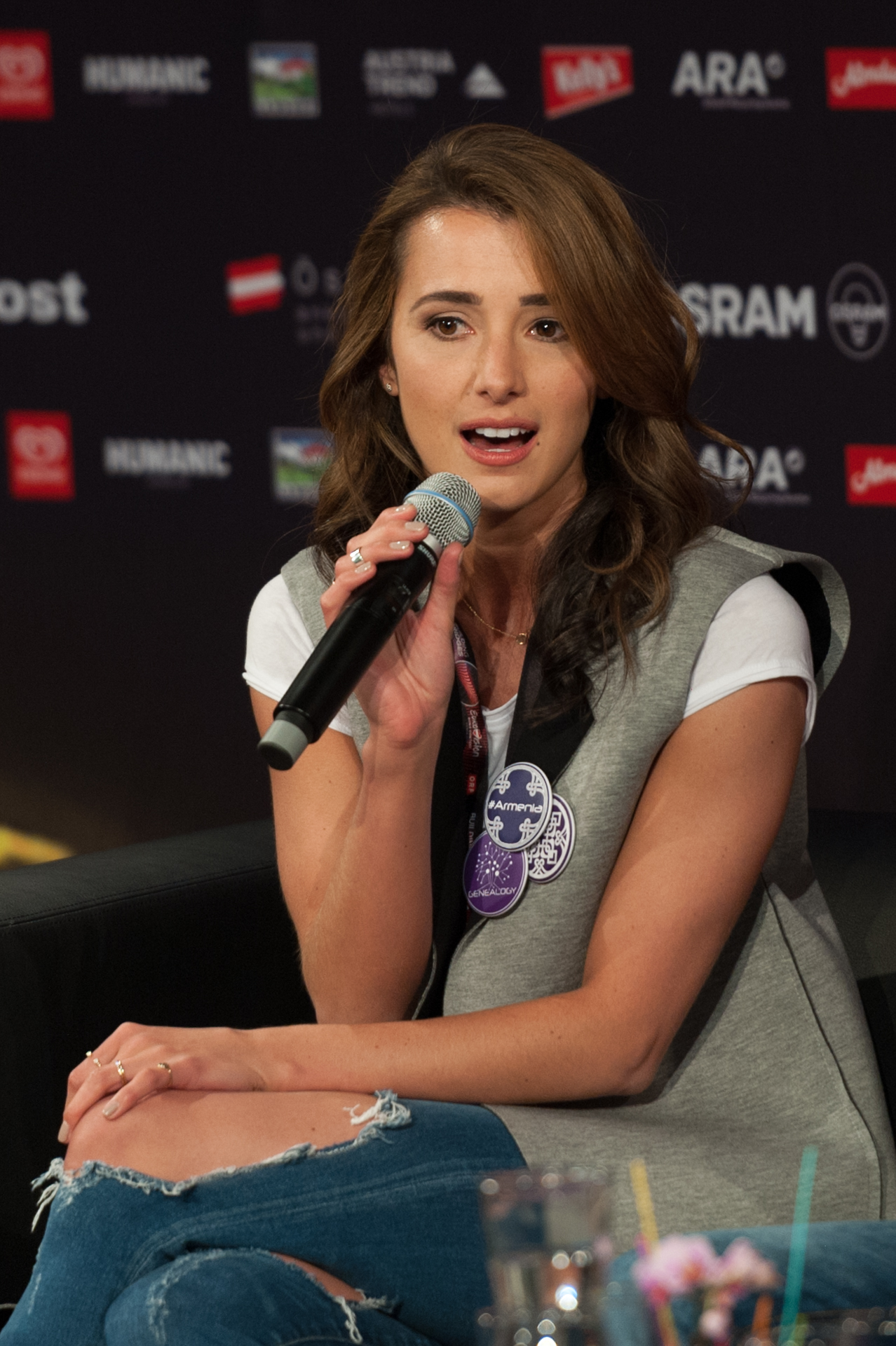 Eurovision Song Contest Vienna 2015: Genealogy